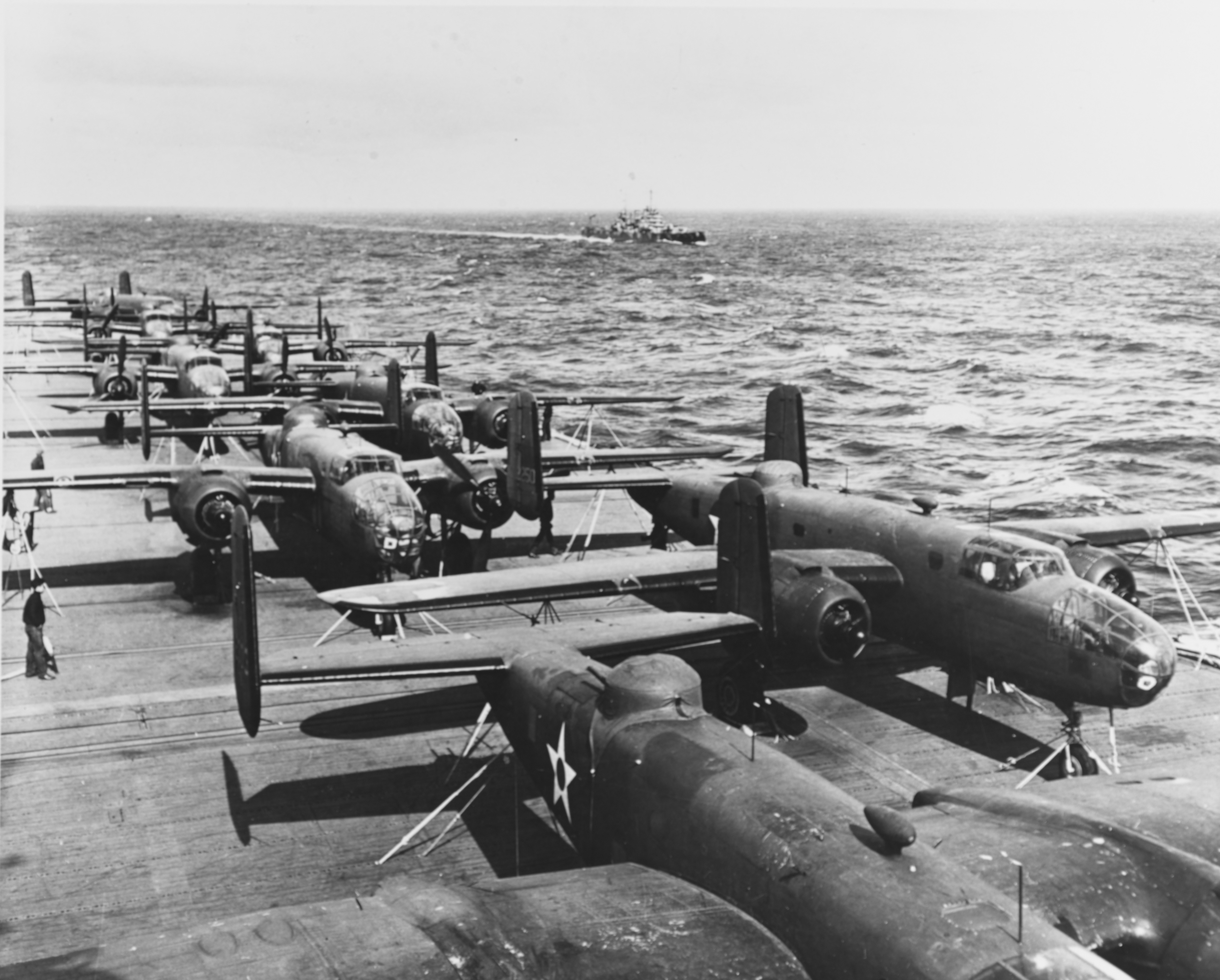 View from the island of the U.S. Navy aircraft carrier USS Hornet (CV-8), while en route to the "Doolittle Raid" mission's launching point. The light cruiser USS Nashville (CL-43) is in the distance. Eight of the mission's 16 B-25B bombers are visible on the carrier's flight deck. Aircraft at right is tail No. 40-2250 and mission plane No. 10. 2nd Lt. Richard O. Joyce piloted the aircraft to targets in the Tokyo area. (U.S. Navy photo)